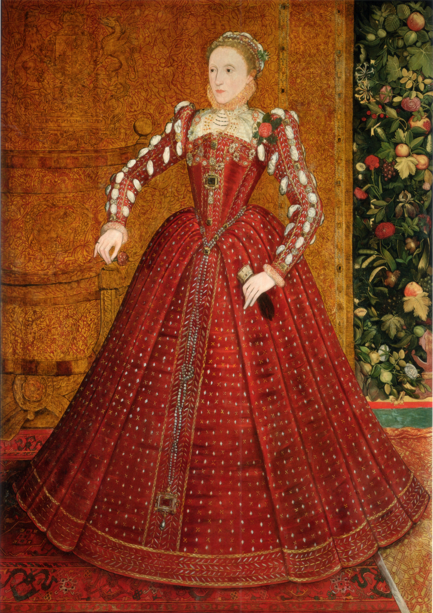 The "Hampden" portrait of Elizabeth I of England, an early full-length portrait of the young queen in a red satin gown. Oil on canvas transfered from panel, 196 by 140 cm., 77¼ by 55¼ in. Sold at Sotheby's, London, for £2.6 million in November 2007. Reuters news story "Sir Roy Strong, a leading authority on portraits of Elizabeth I, who has written about the painting for Sotheby's in-house magazine, Preview, believed it to be an important early portrait, undertaken at a time when her image was being tightly controlled. 'This is a portrait dating from the mid to late 1560s, one of a group produced in response to a crisis over the production of the royal image, one which was reflected in the words of a draft proclamation dated 1563,' he said." FindArticles Portrait of a royal quest for a husband, The Independent, (London), Nov 1, 2007 [dead link]